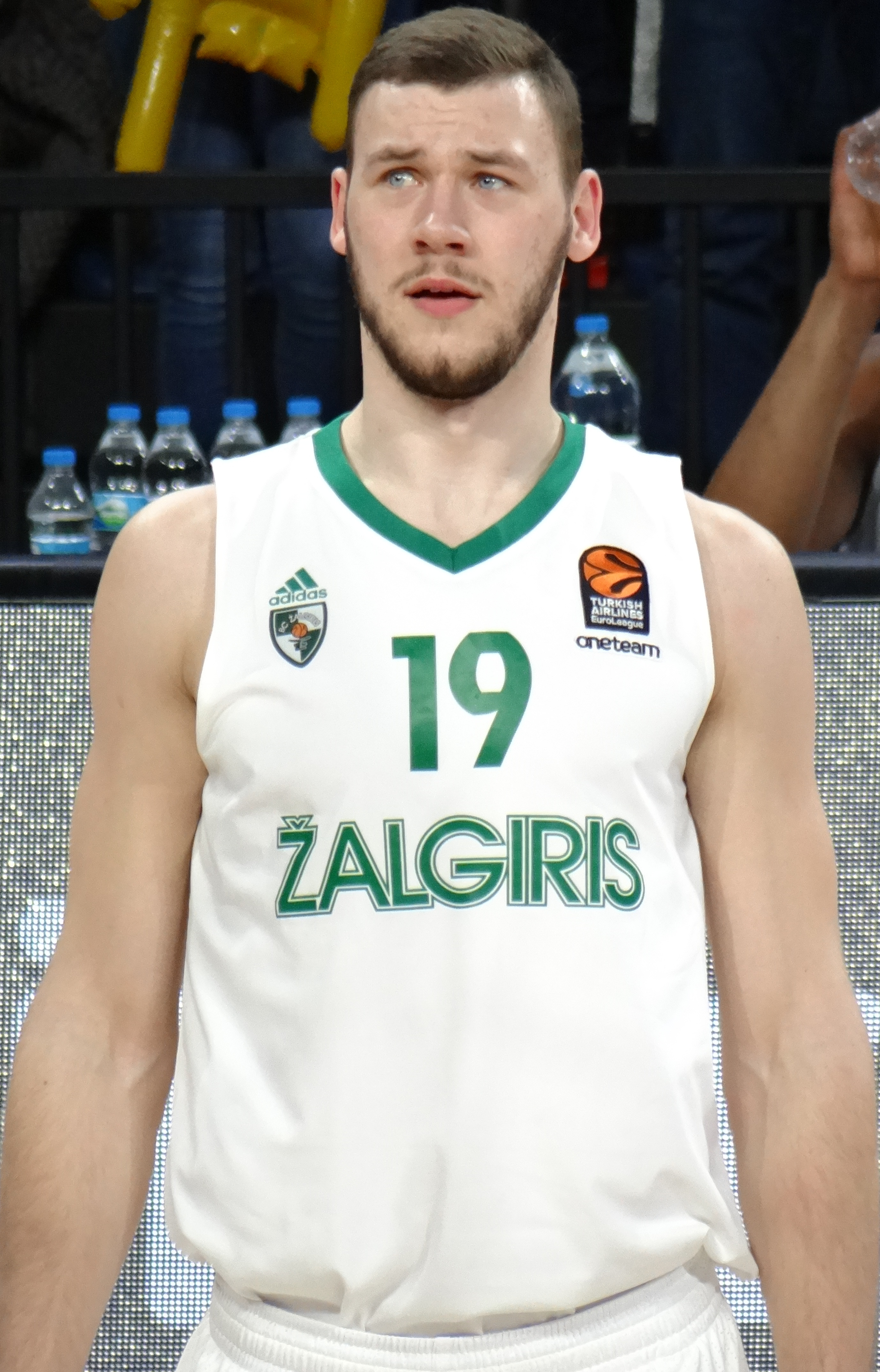 Martynas Sajus 19 BC Žalgiris EuroLeague 20180223